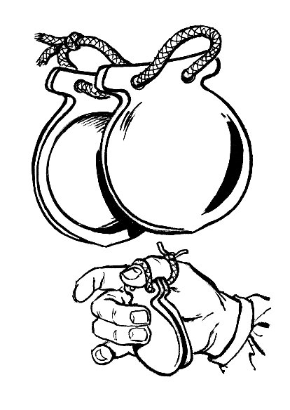 line art drawing of castanets.